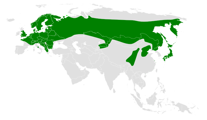 Poecile montanus distribution map, based on